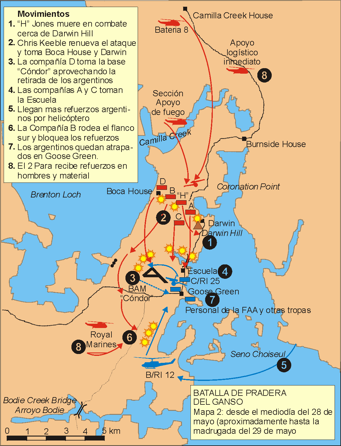 Battle of Darwin-Goose Green: step 2. British 2 Para push forward and cut off Goose Green.